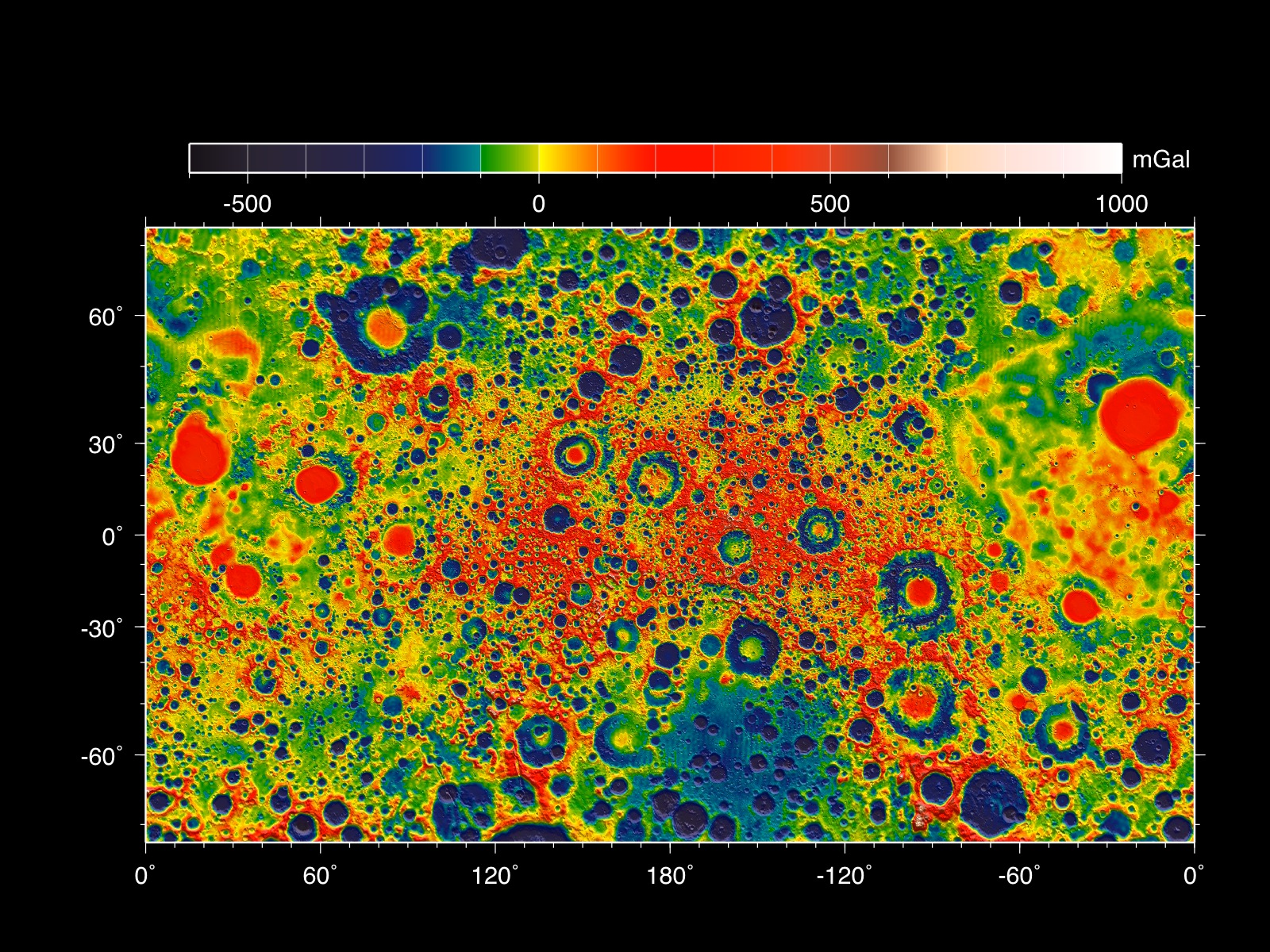 This map shows the gravity field of the moon as measured by NASA's GRAIL mission. The viewing perspective, known as a Mercator projection, shows the far side of the moon in the center and the nearside (as viewed from Earth) at either side. Units are milliGalileos where 1 Galileo is 1 centimeter per second squared. Reds correspond to mass excesses which create areas of higher local gravity, and blues correspond to mass deficits which create areas of lower local gravity.